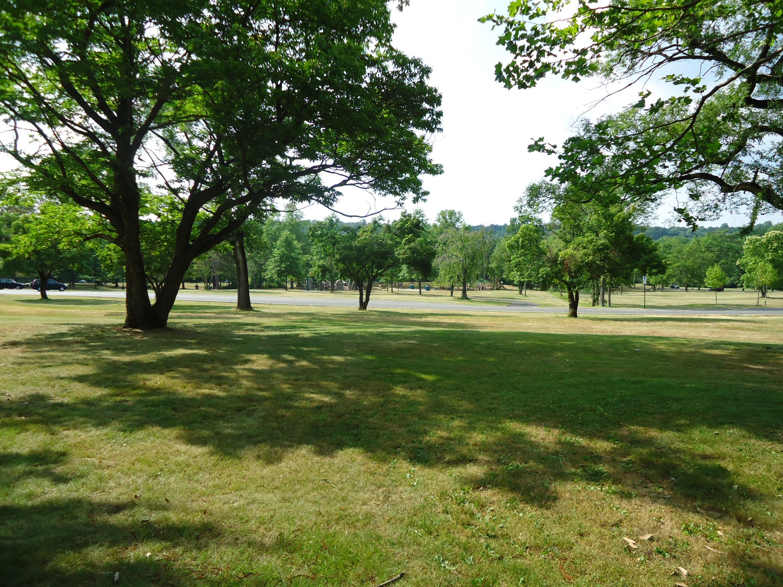 Grassy open-space playing fields in Watchung in New Jersey.